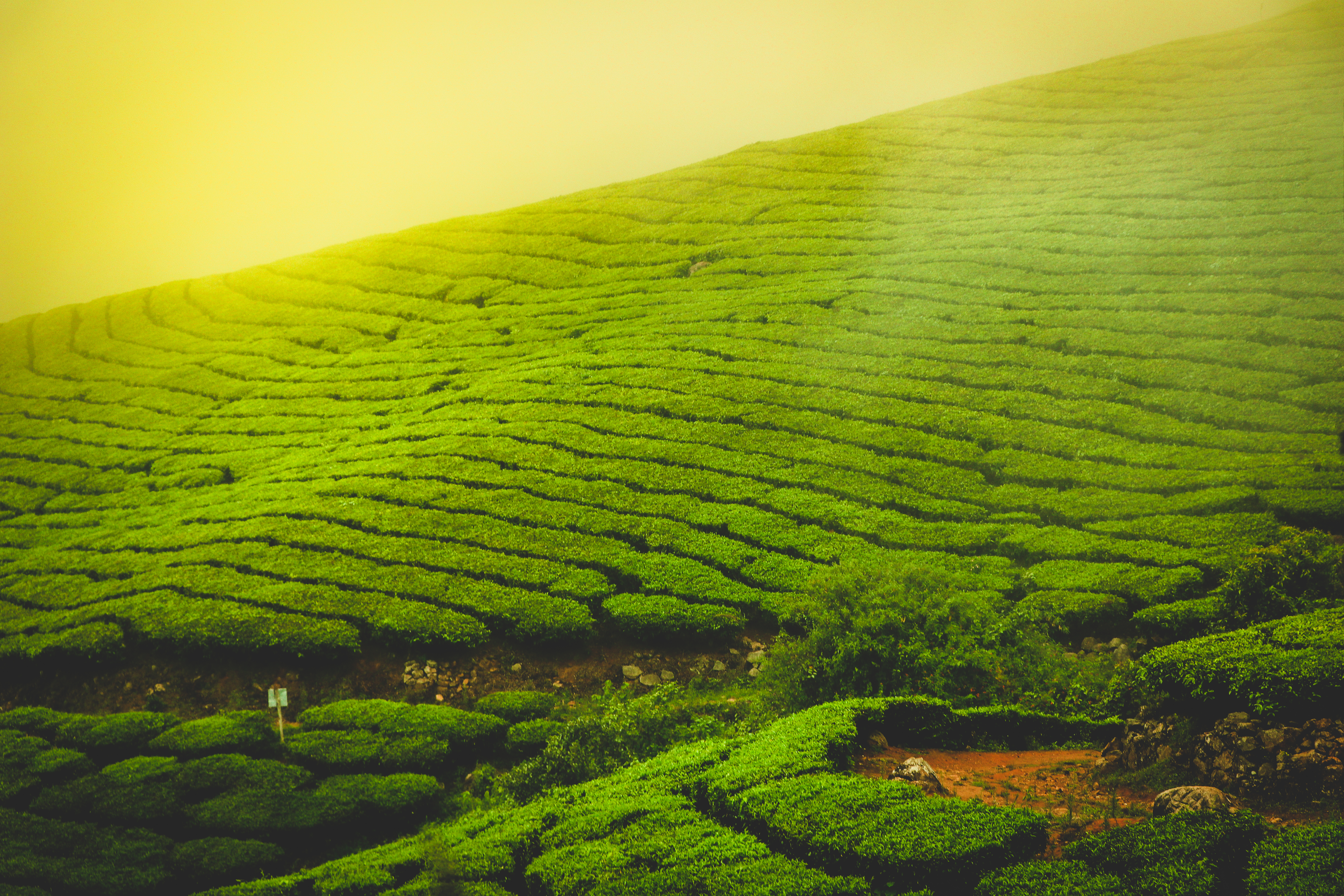 Tea or Chai is the most widely drunk beverage in the whole world. The tea plant, Camellia Sansis, is a cultivated variety of a tree that has its origins in an area between India,one of it is Munnar